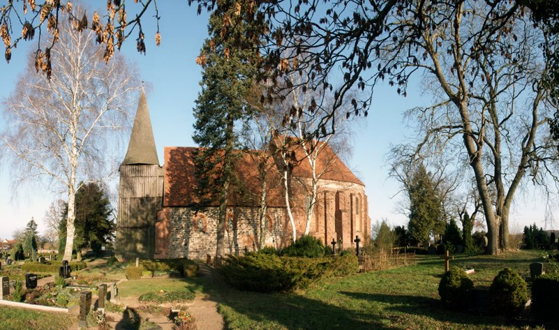 Church in Kuppentin, disctrict Parchim, Mecklenburg-Vorpommern, Germany from south